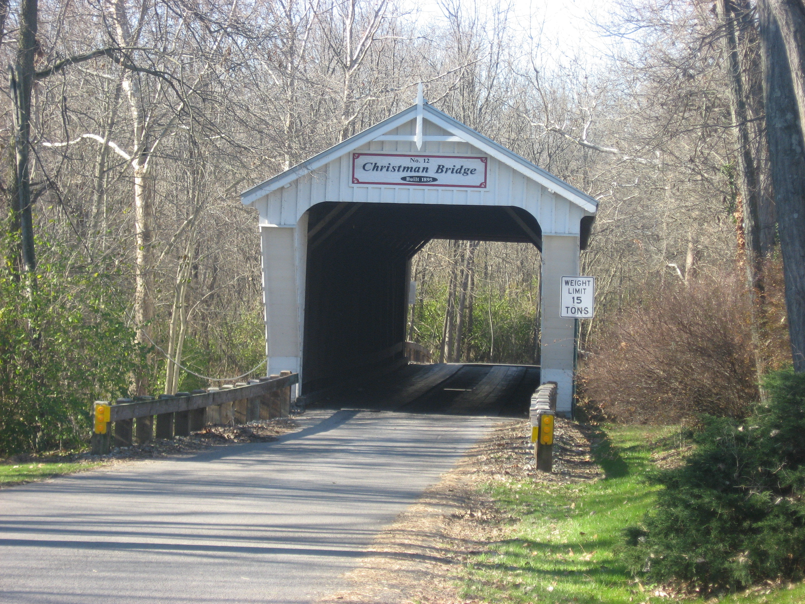 Eastern portal of the Christman Covered Bridge, which carries Eaton New Hope Road over Sevenmile Creek northwest of Eaton in Washington Township, Preble County, Ohio, United States. Built in 1895, it is listed (along with the rest of the homestead) on the National Register of Historic Places.